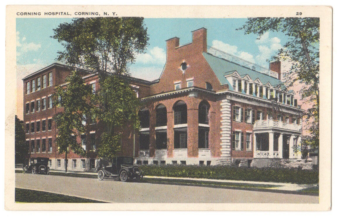 Corning Hospital, Corning, New York Postcard, circa 1920